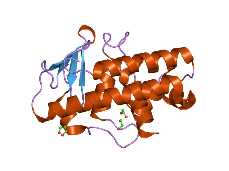 Cartoon representation of the molecular structure of protein registered with 1eb6 code.